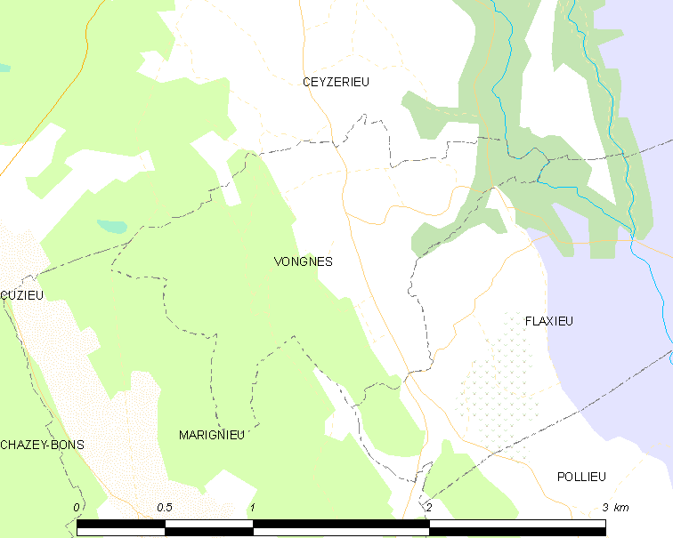 Map of French commune: Vongnes Map commune FR insee code 01456.png